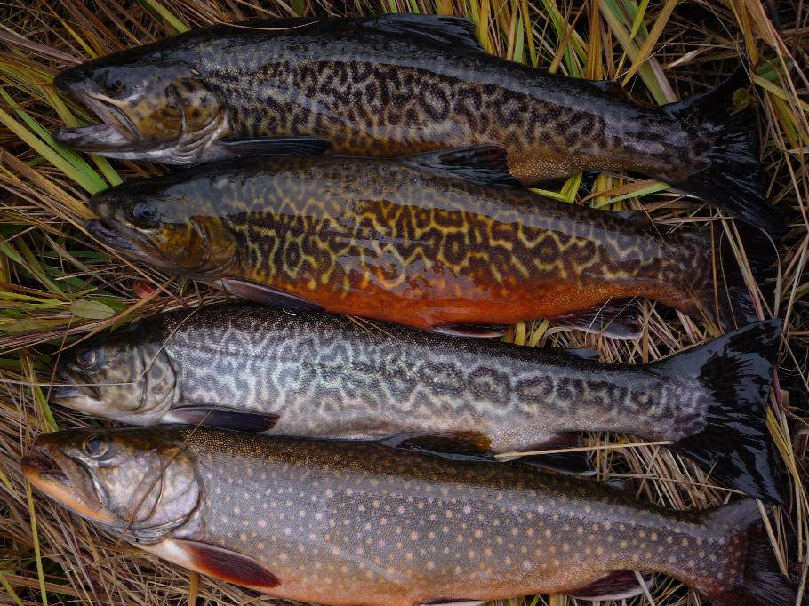 3 versions of the Tiger Trout hybrid and 1 Splake hybrid